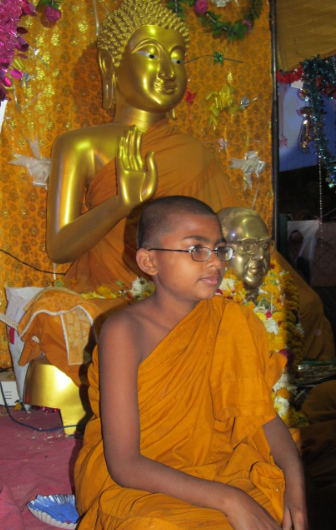 The concept of Ambedkar as a Bodhisattva or enlightened being who brings liberation to all backward classes is widespread among Buddhists. His statue is often placed along with Buddha statue in India.